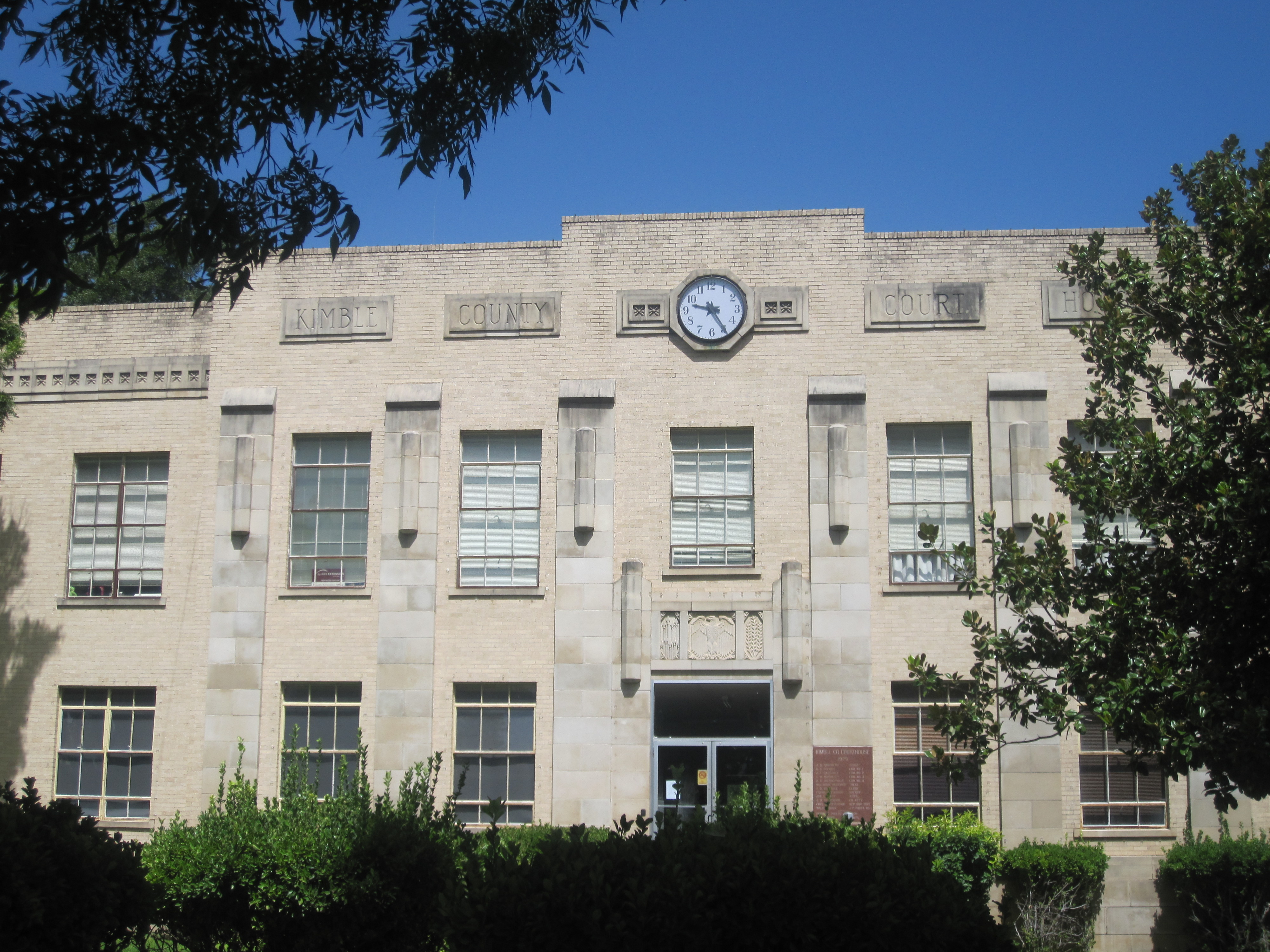 I took photo with Canon camera in Junction, TX.